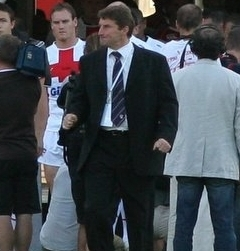 Tony Smith